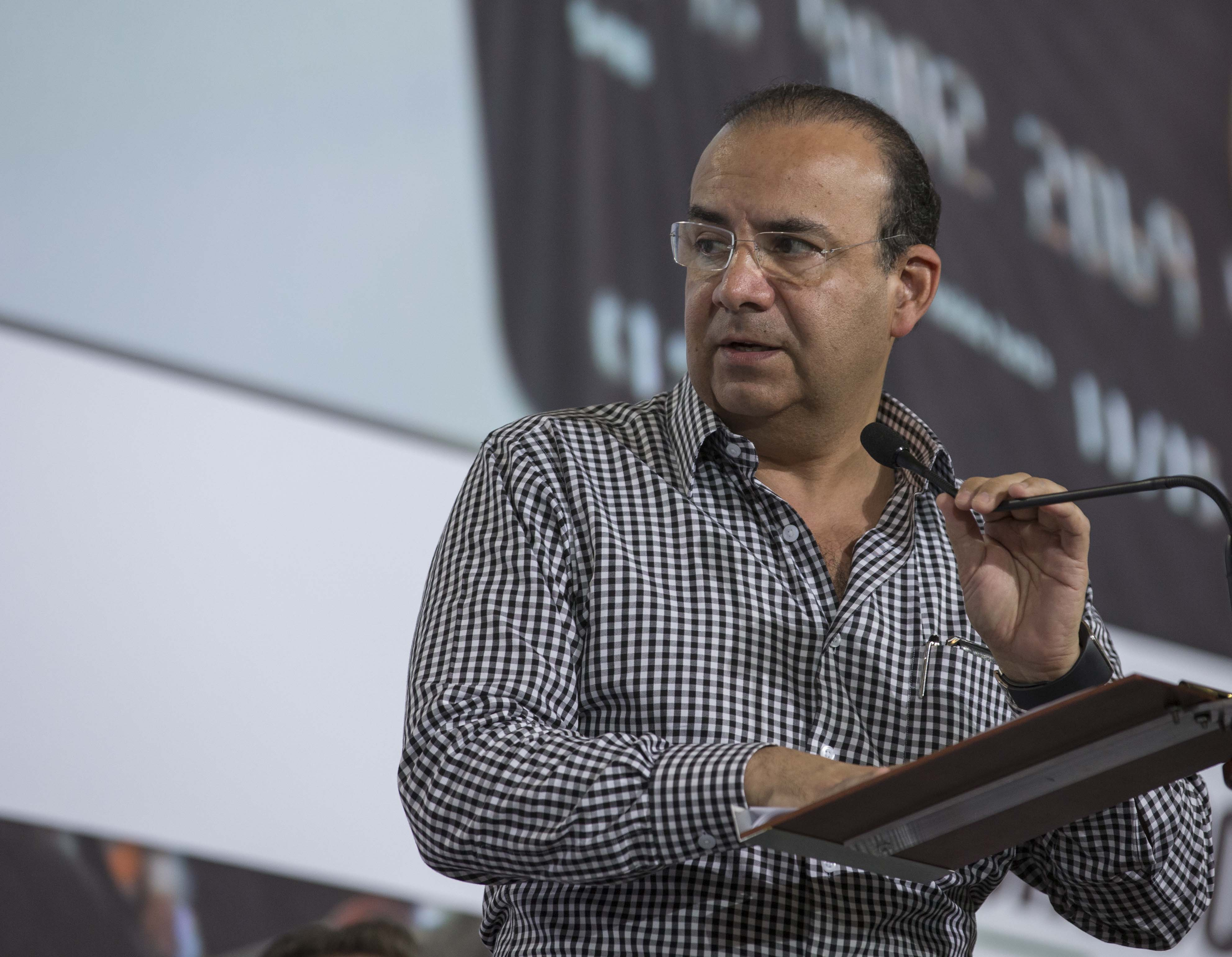 Entrega de apoyos a la economía familiar de los trabajadores. Aguascalientes. 13 de octubre de 2015.